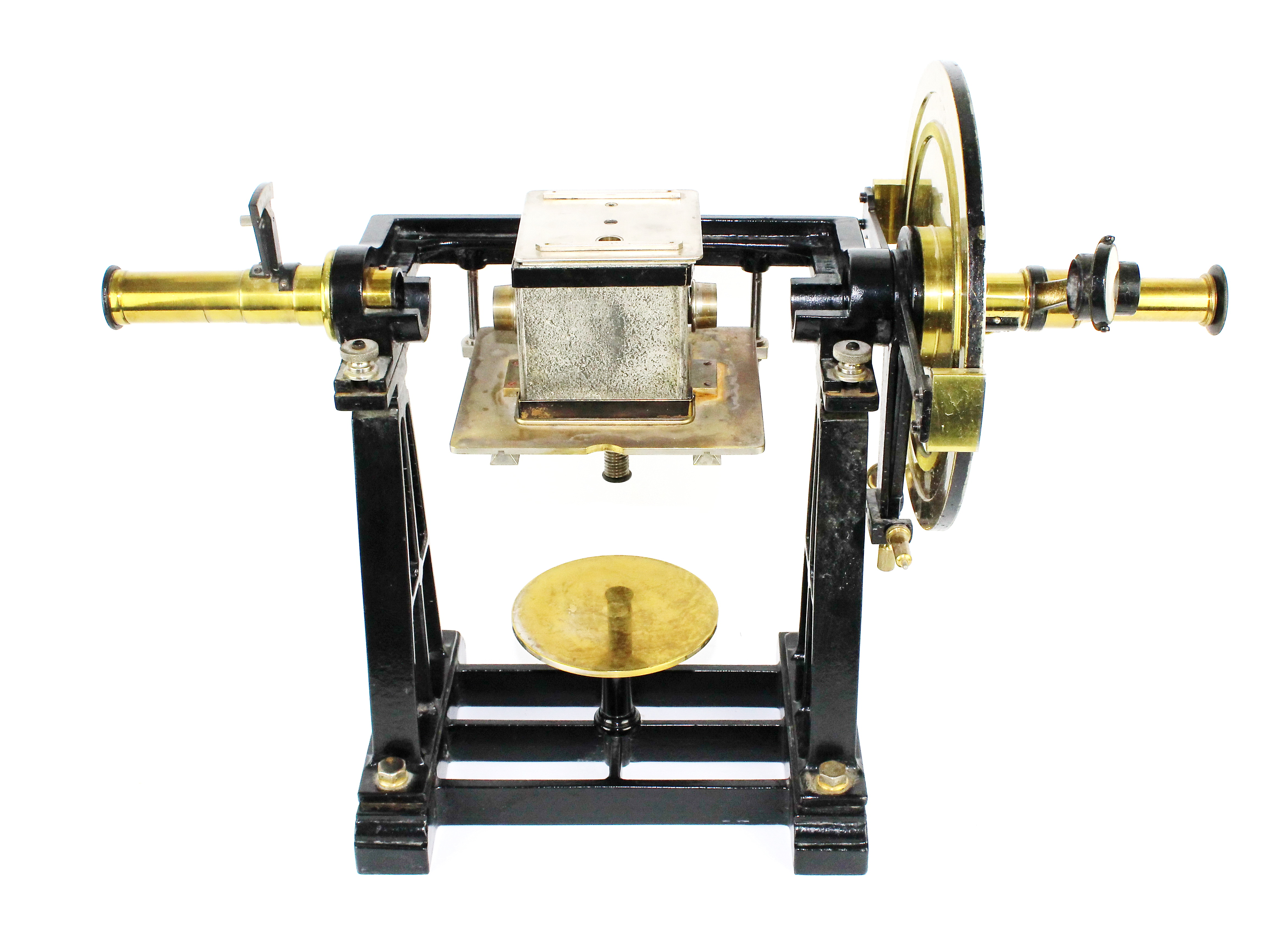 Polarimeter. It is located in Museum of Science and Technology Belgrade.